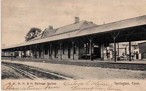 Railroad station, Torrington, on the New York, New Haven and Hartford railway, mailed in 1907. Size: 3.5 inches by 5.5 inches